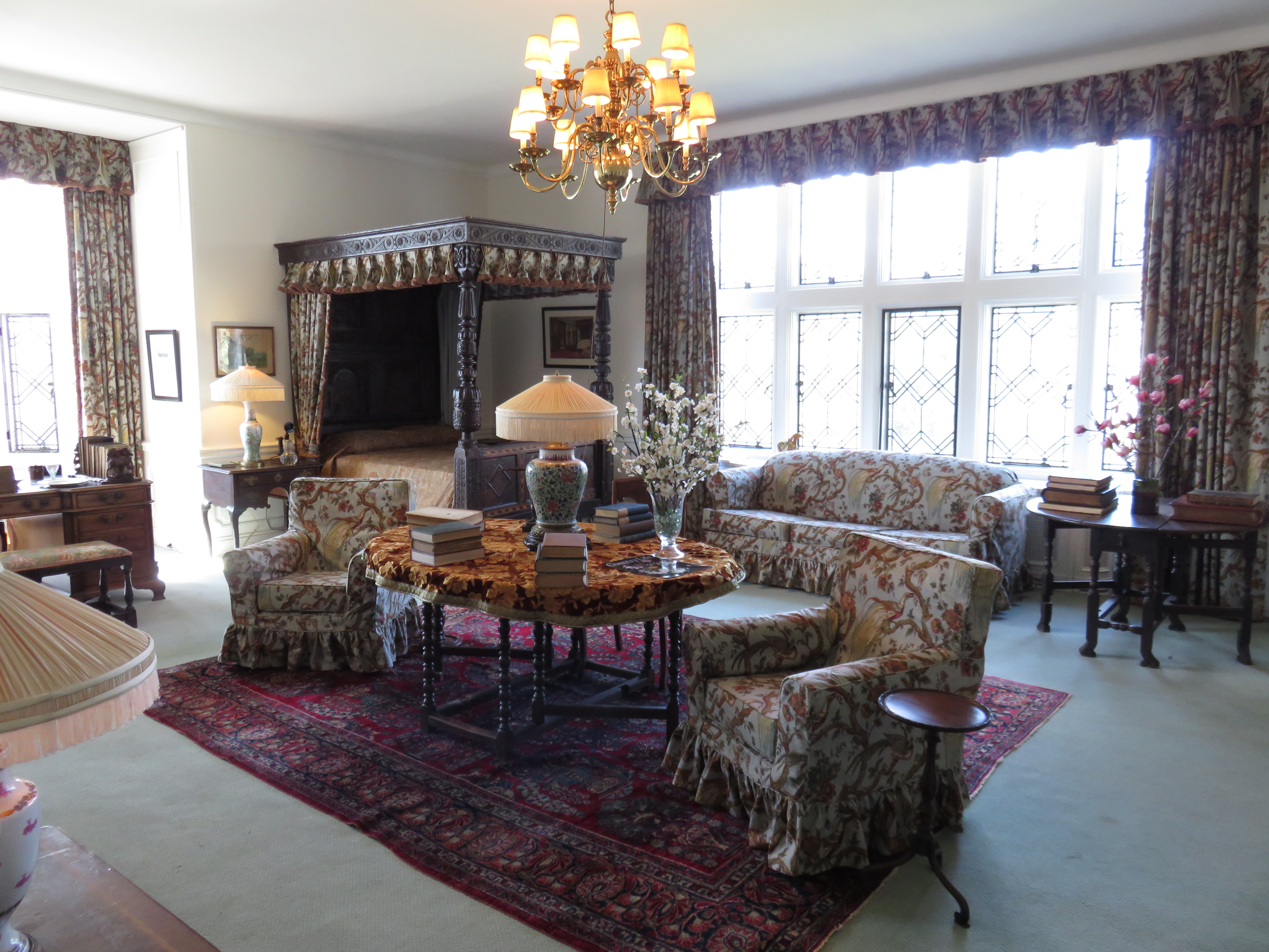 Mr. Coe's Bedroom in Coe Hall at Planting Fields Arboretum State Historic Park in Upper Brookville, New York in 2016